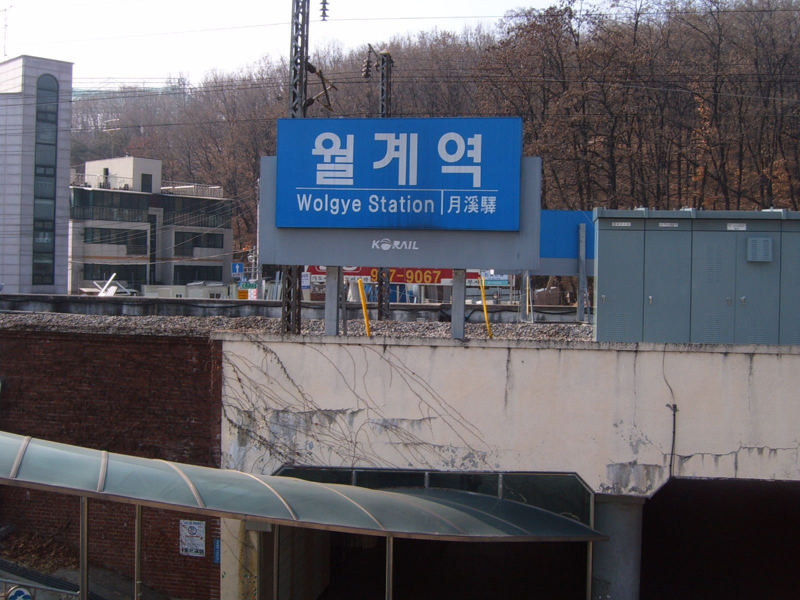 Wolgye Station